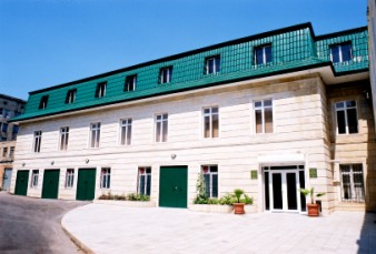 Control Center of GNFE